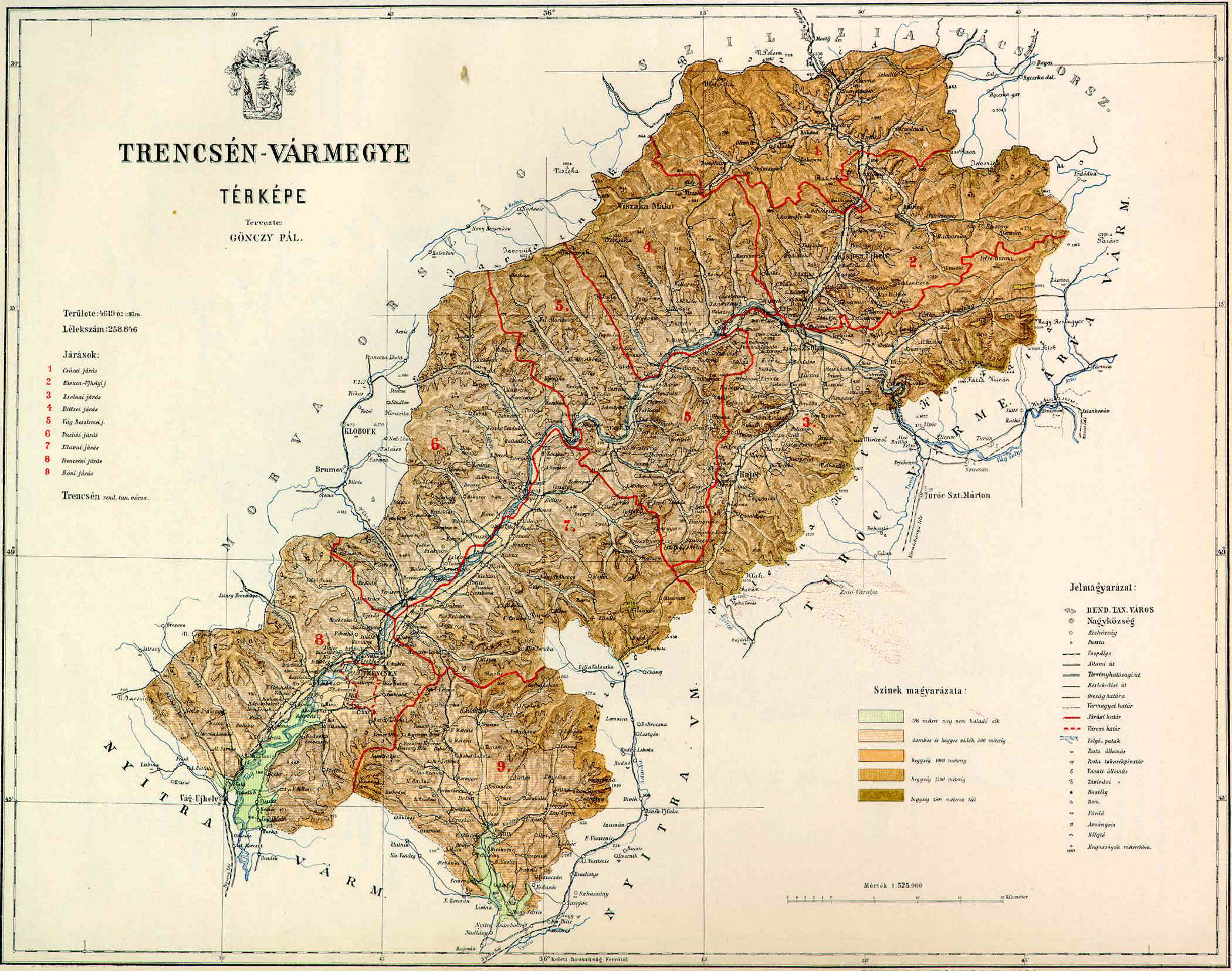 County of Trencsén in the pre-Trianon Kingdom of Hungary. Komitat Trencsén w Królestwie Węgier przed traktatem w Trianon.